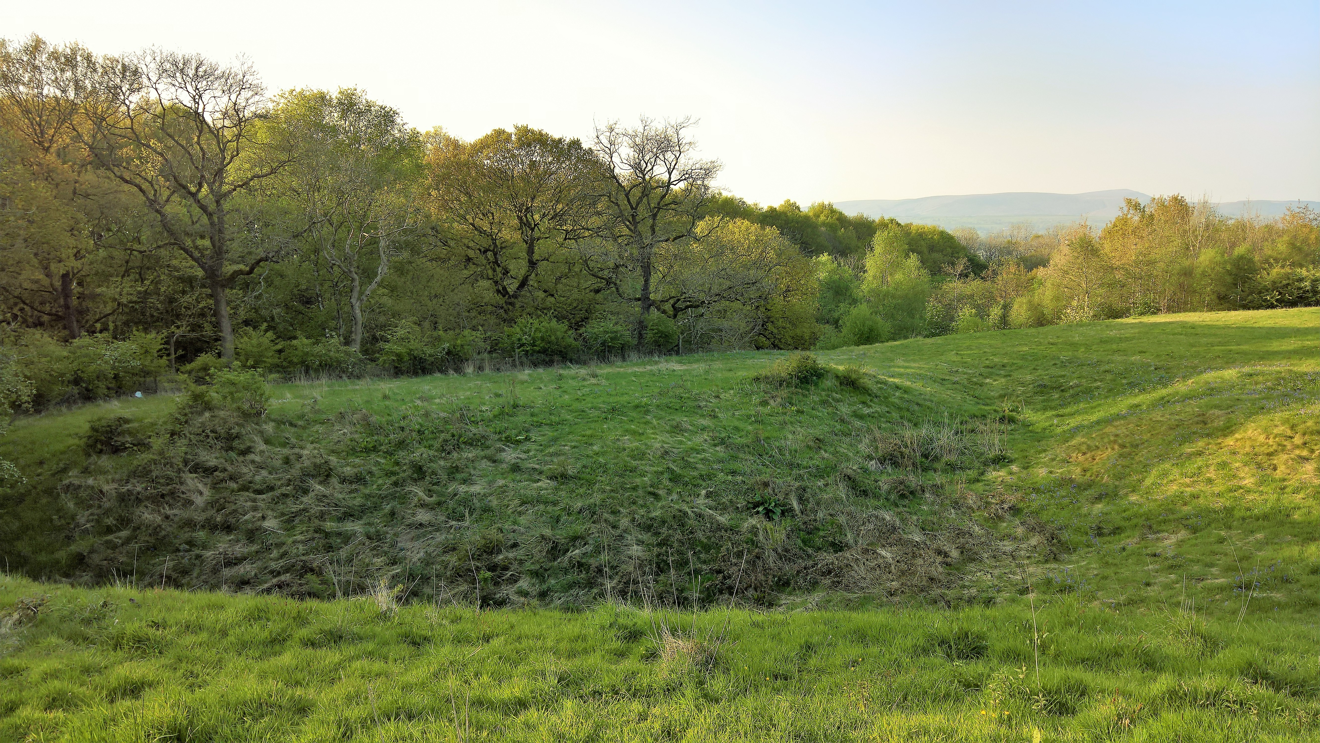 The site of Hapton Castle Wikidata has entry Q17662028 with data related to this item.